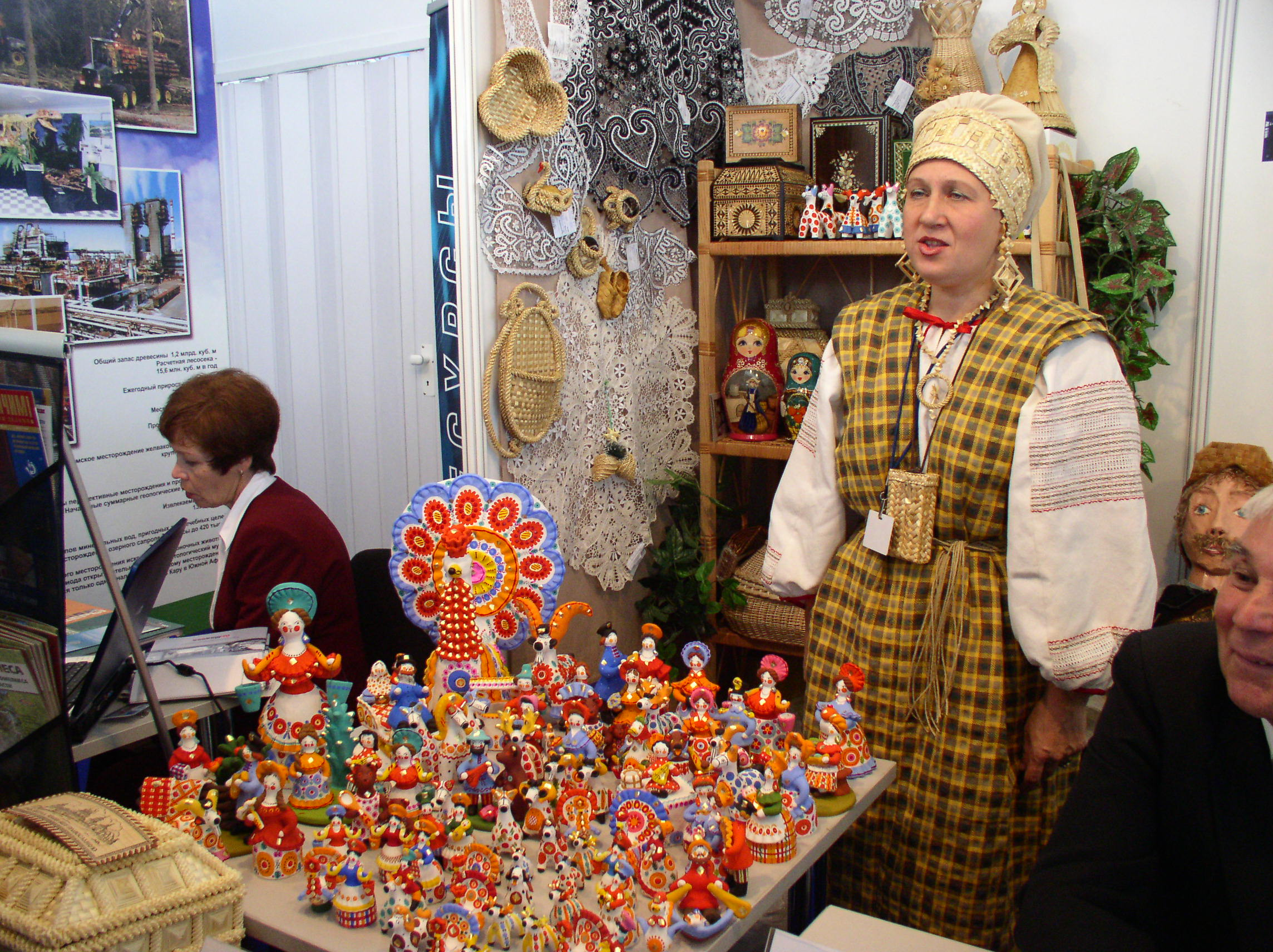 Woman in national costume. Russian national exhibition, Minsk, Belarus.